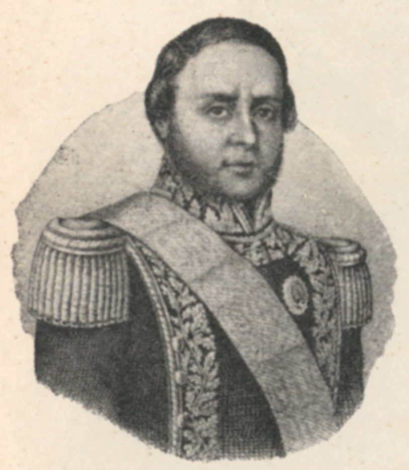 Justo José de Urquiza (1801–1870) was an Argentine general and politician, caudillo of Entre Ríos and President of the Argentine Confederation.